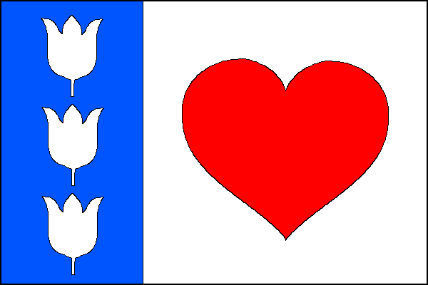 Municipal fkag of Liptál village, Vsetín District, Czech Republic.